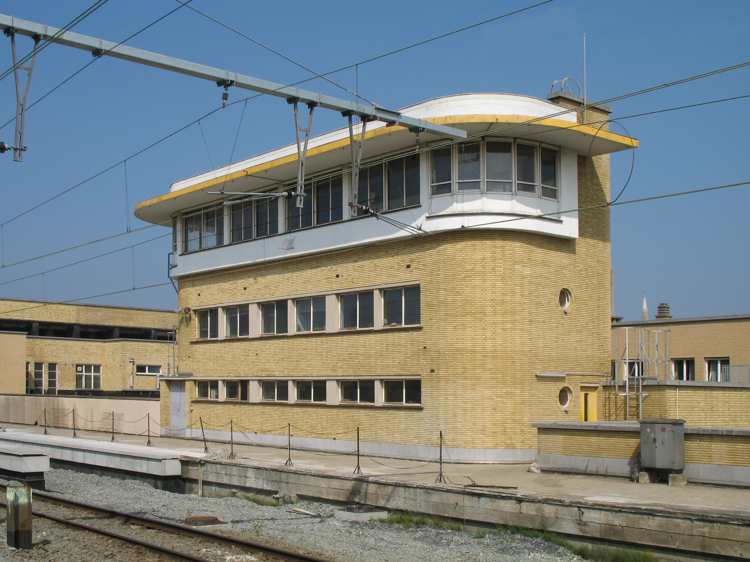 The former central signal box of the Bruges railway station (Belgium), built in 1939